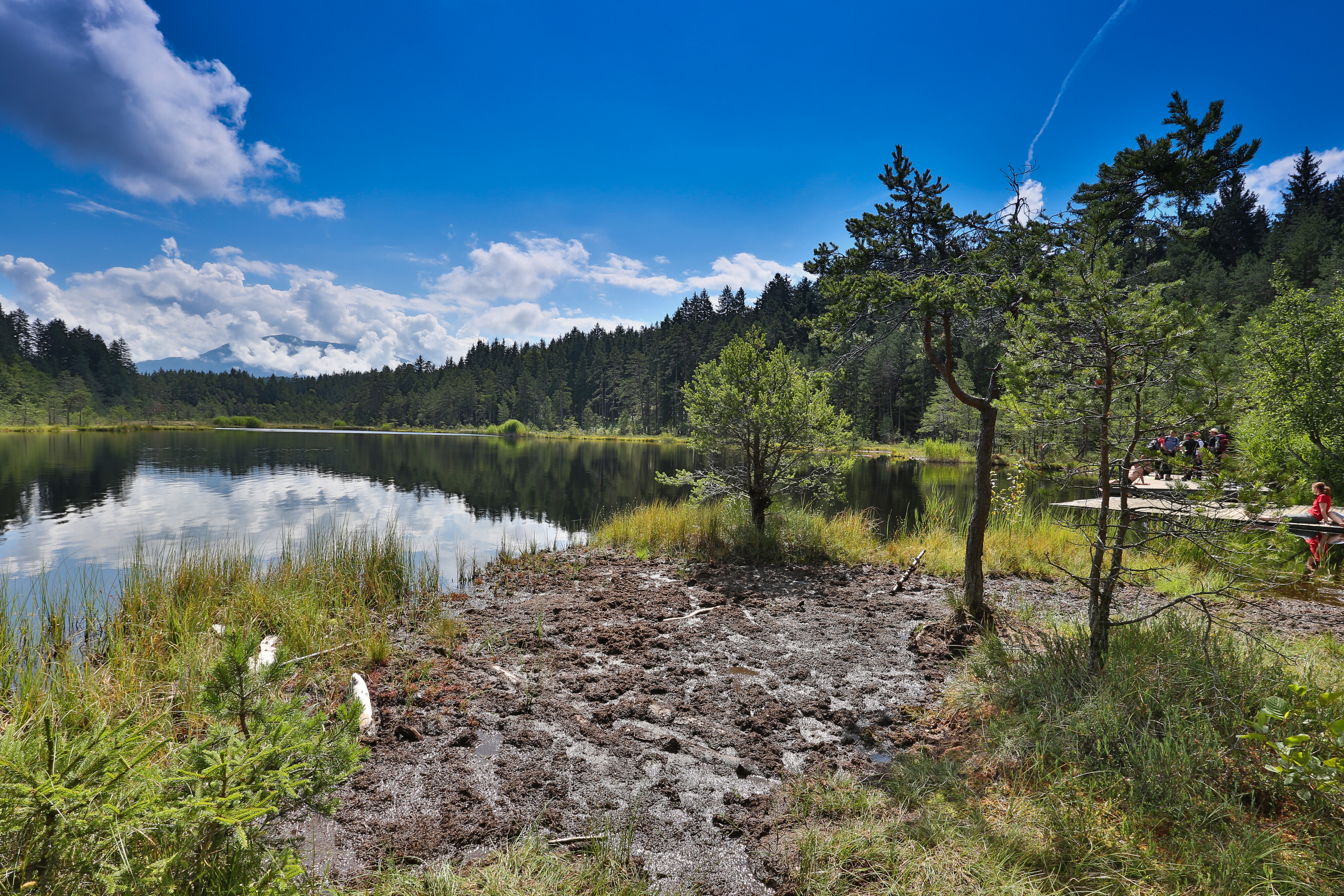 Lake Egelsee a mire lake, near Molzbichl / Spittal an der Drau / Carinthia / Austria / EU. View to the east. In the background mount Mirnock.